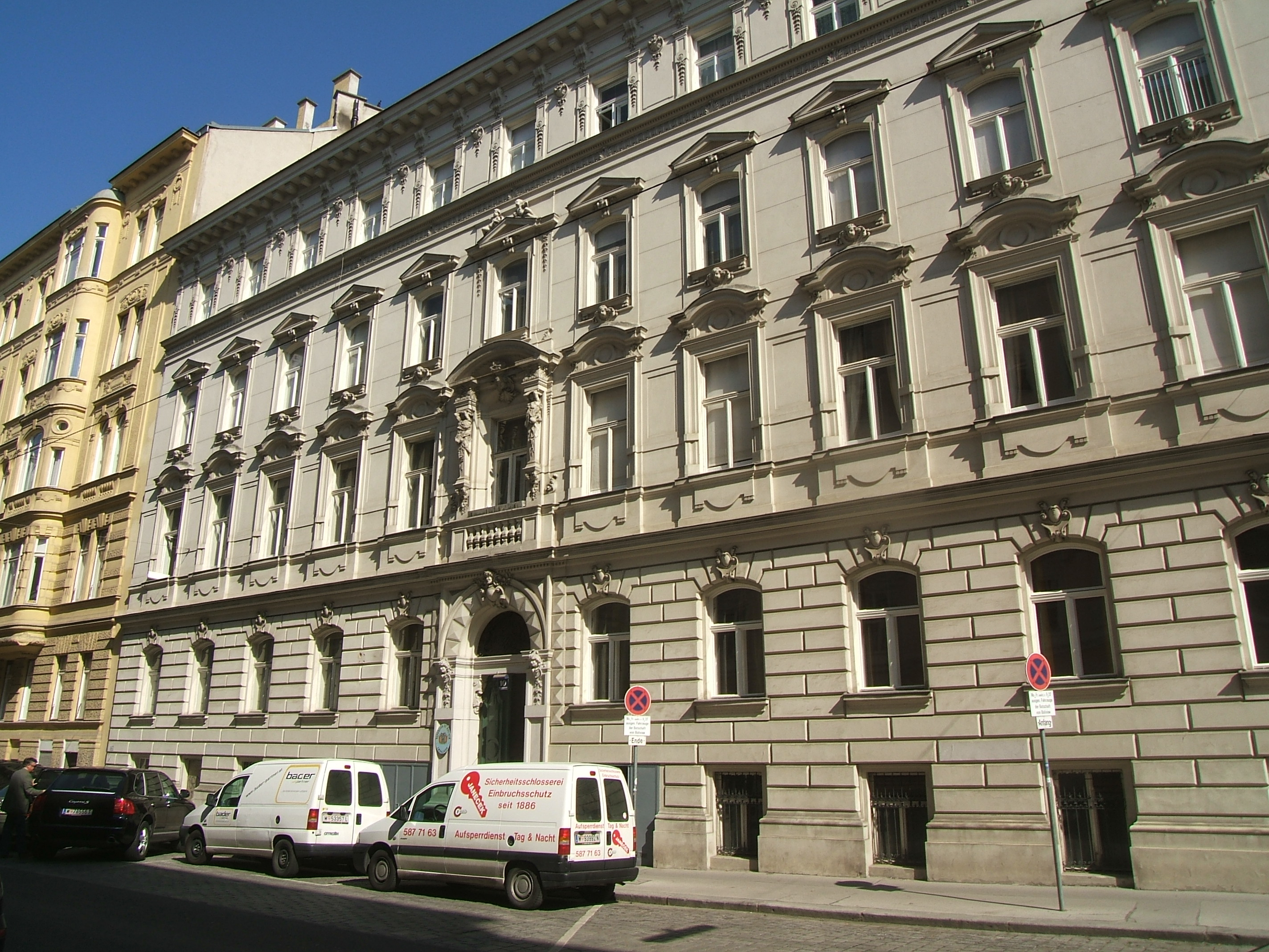 Embassy of Bolivia in Vienna 4th district Waaggasse 10